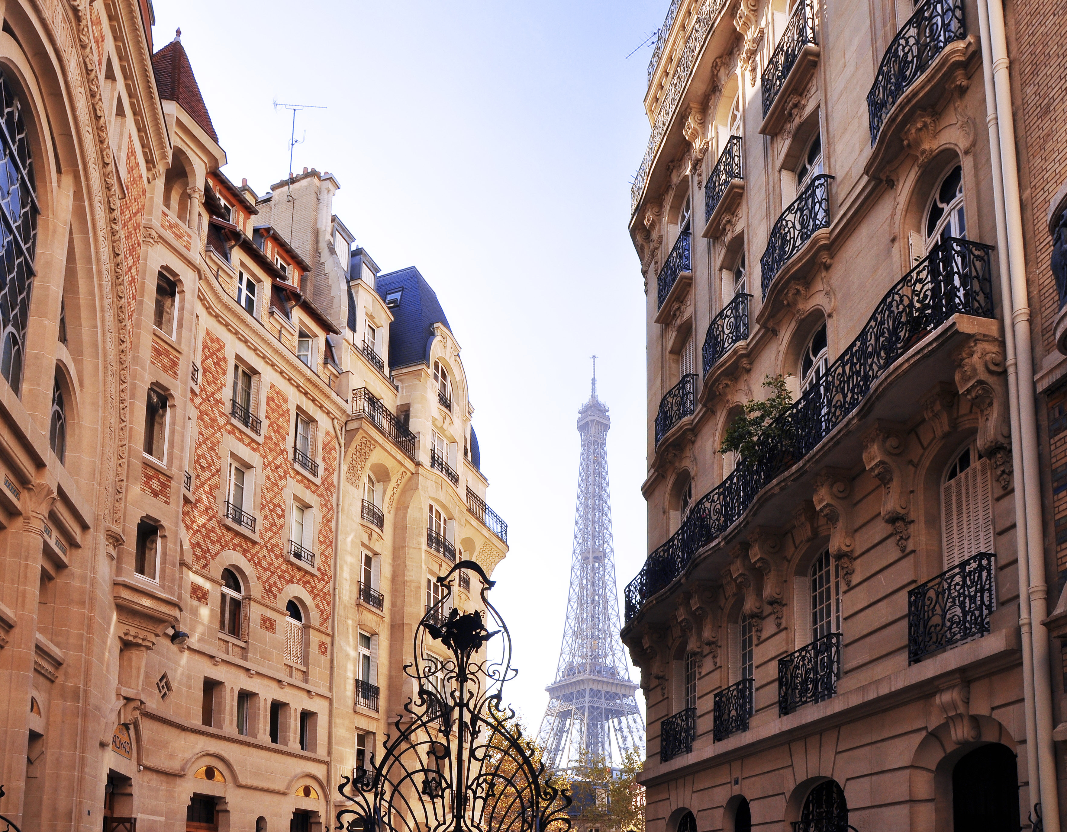 Building of the Theosophical Society located at 4 square Rapp in the 7th arrondissement of Paris, France.